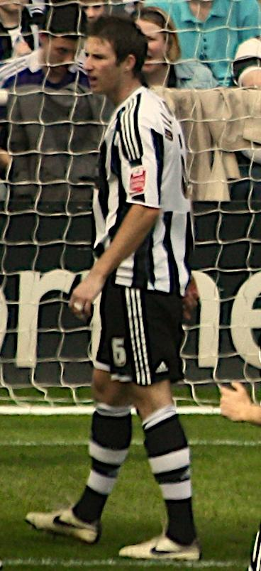 Mike Williamson playing against Ipswich